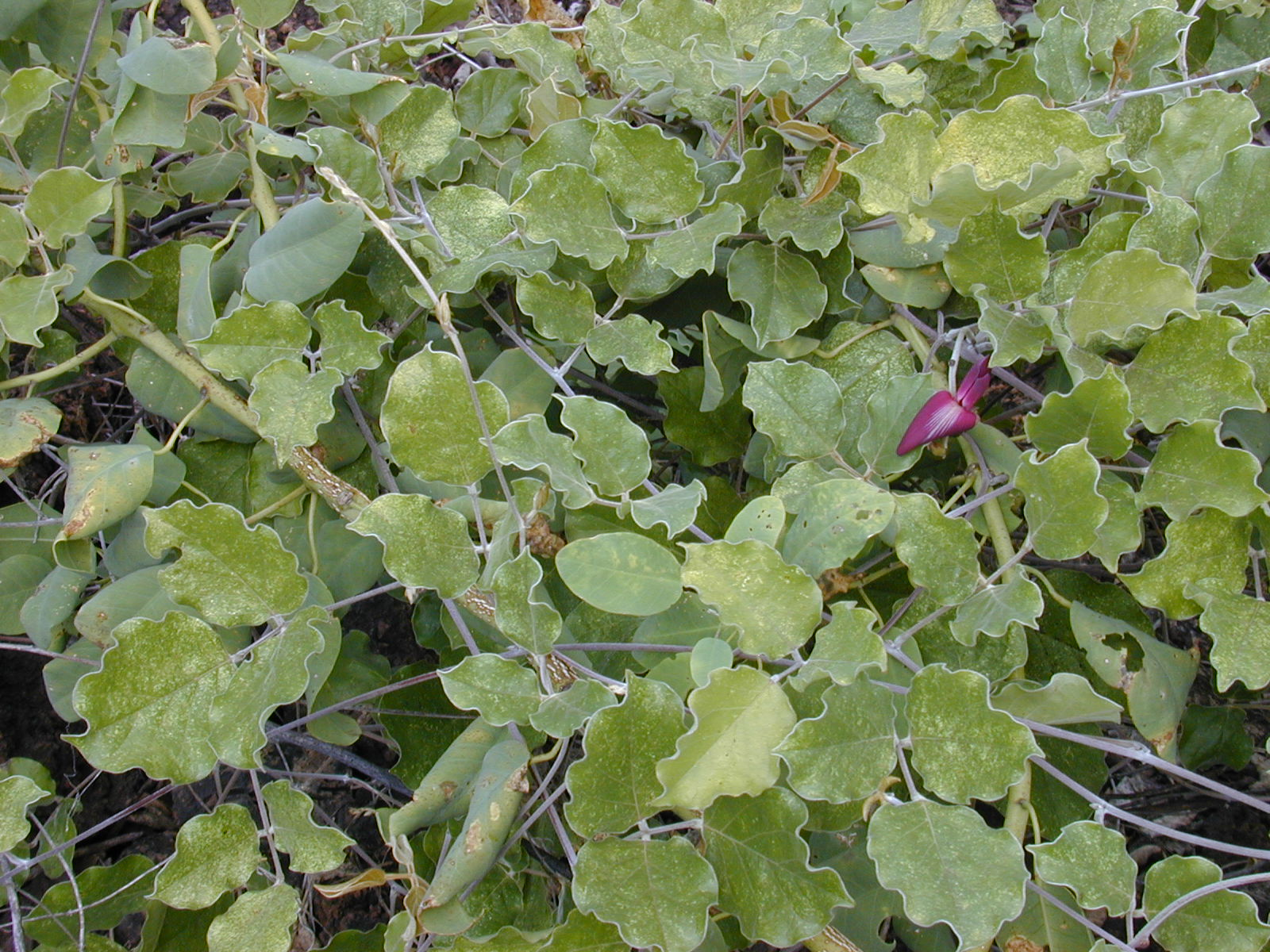 Canavalia pubescens (habit and flower). Location: Maui, Wailea 670